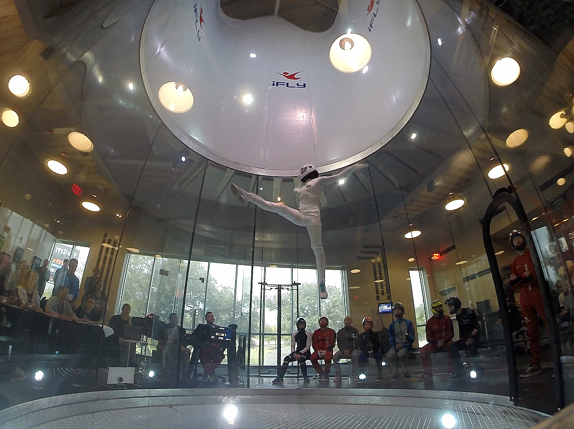 1st FAI Indoor Skydiving World Cup in Austin, Texas. Lise Hernandez is performing her Freestyle routines with music.